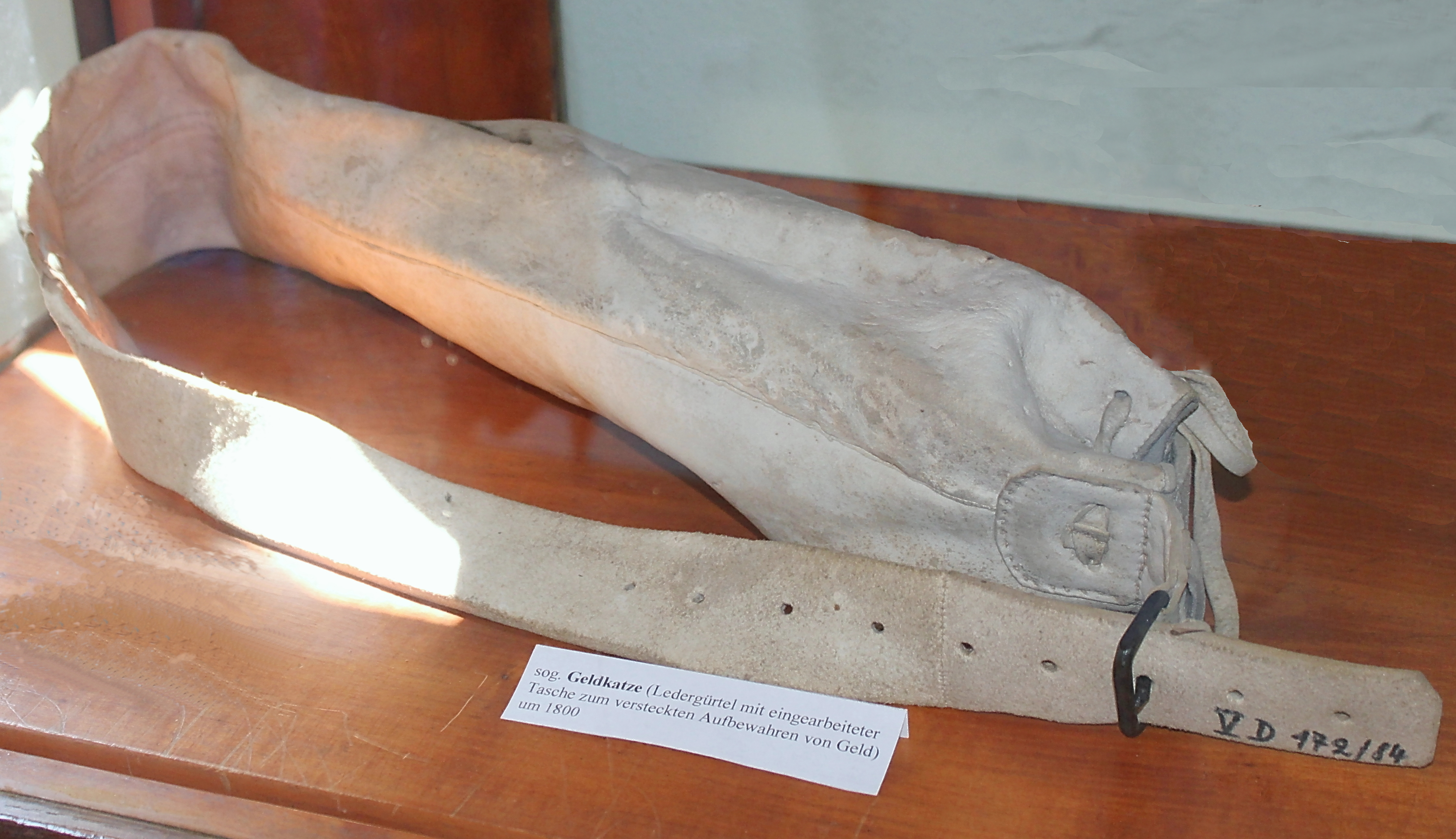 Moneybelt for choin, 1800